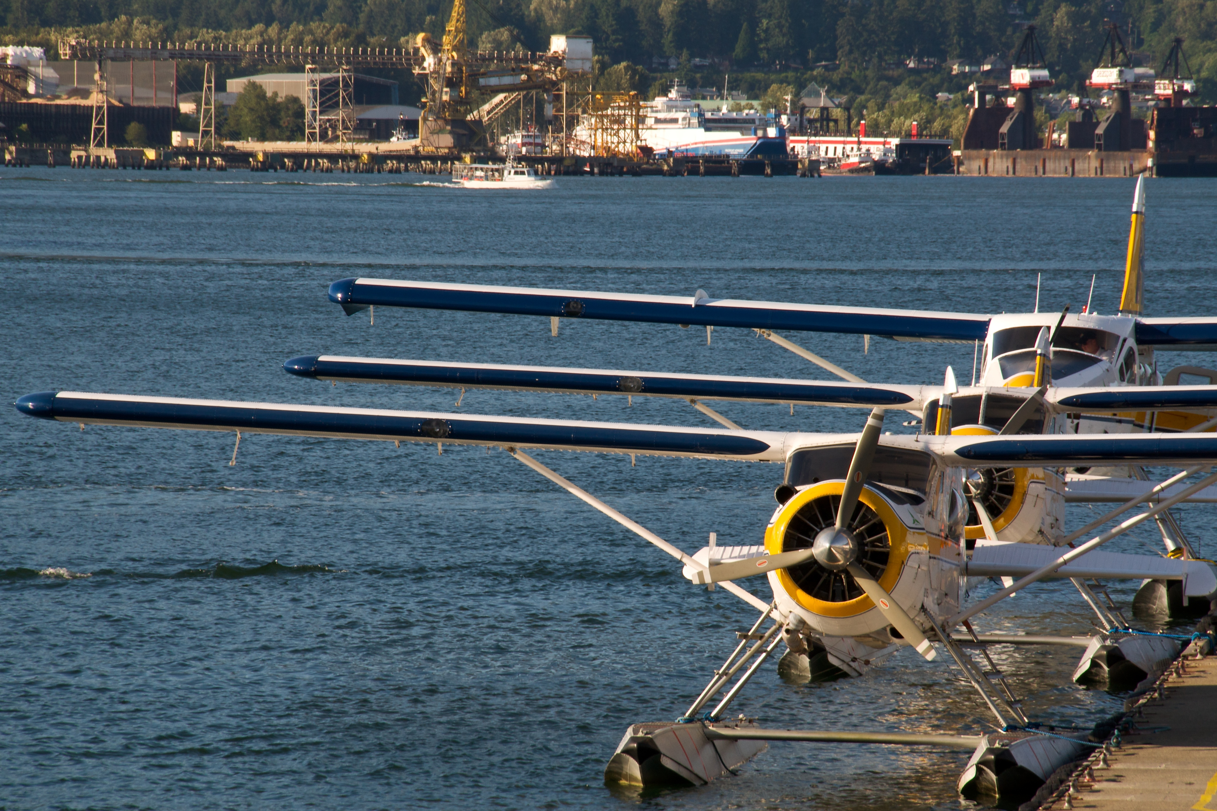 Line up of Harbour Air seaplanes, Vancouver